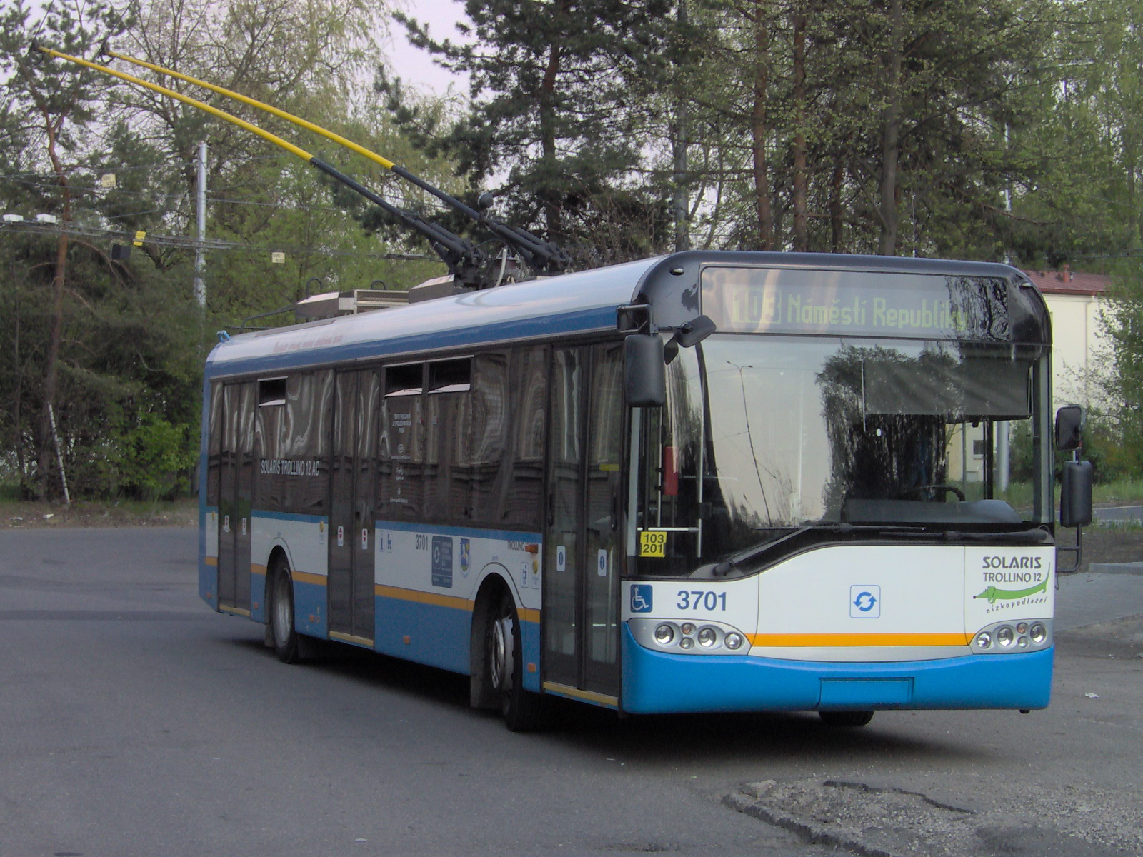 Solaris Trollino 12 trolleybus in Ostrava